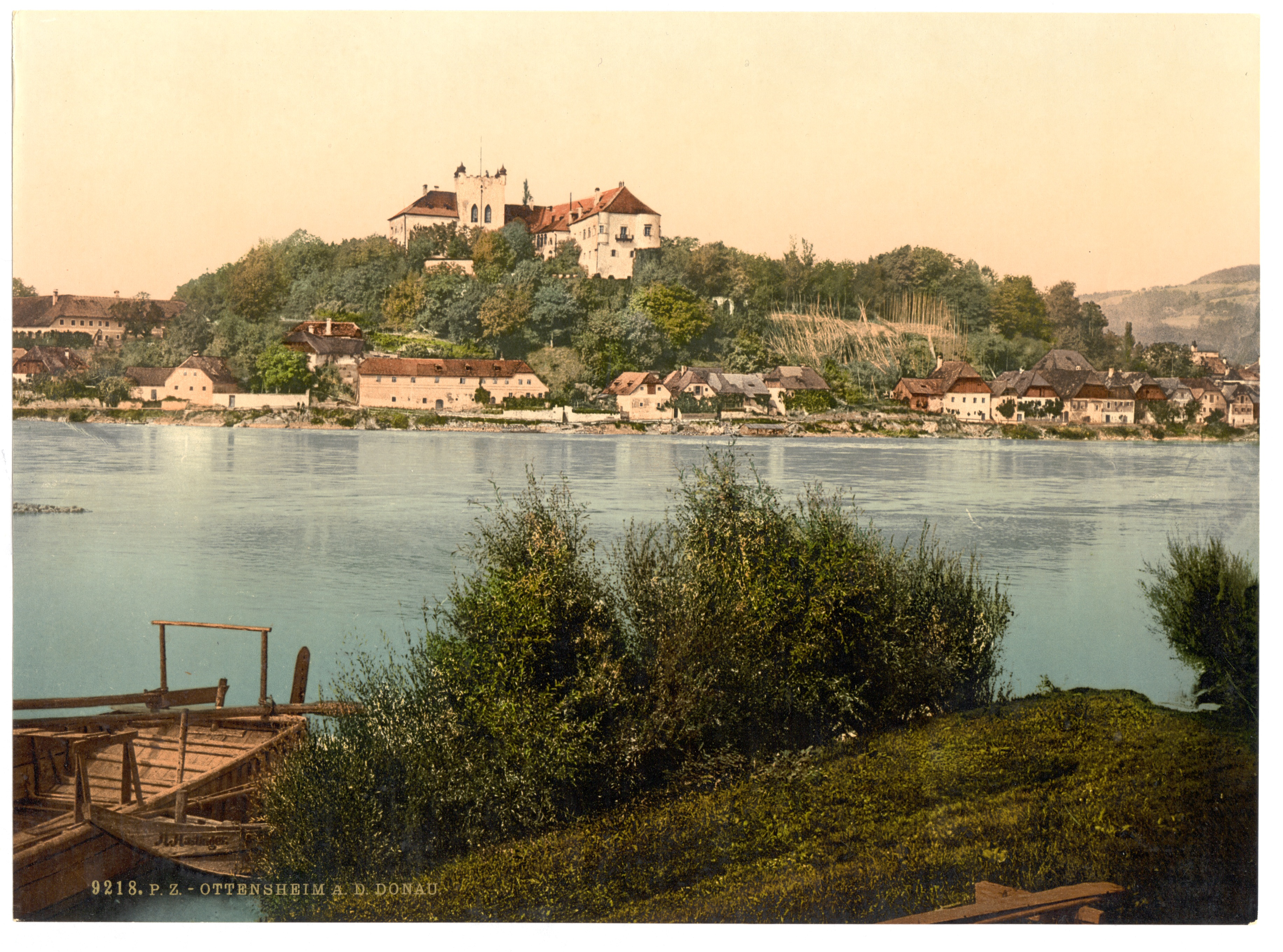 Print no. "9218".; Forms part of: Views of the Austro-Hungarian Empire in the Photochrom print collection.; Title from the Detroit Publishing Co., Catalogue J-foreign section, Detroit, Mich. : Detroit Publishing Company, 1905.